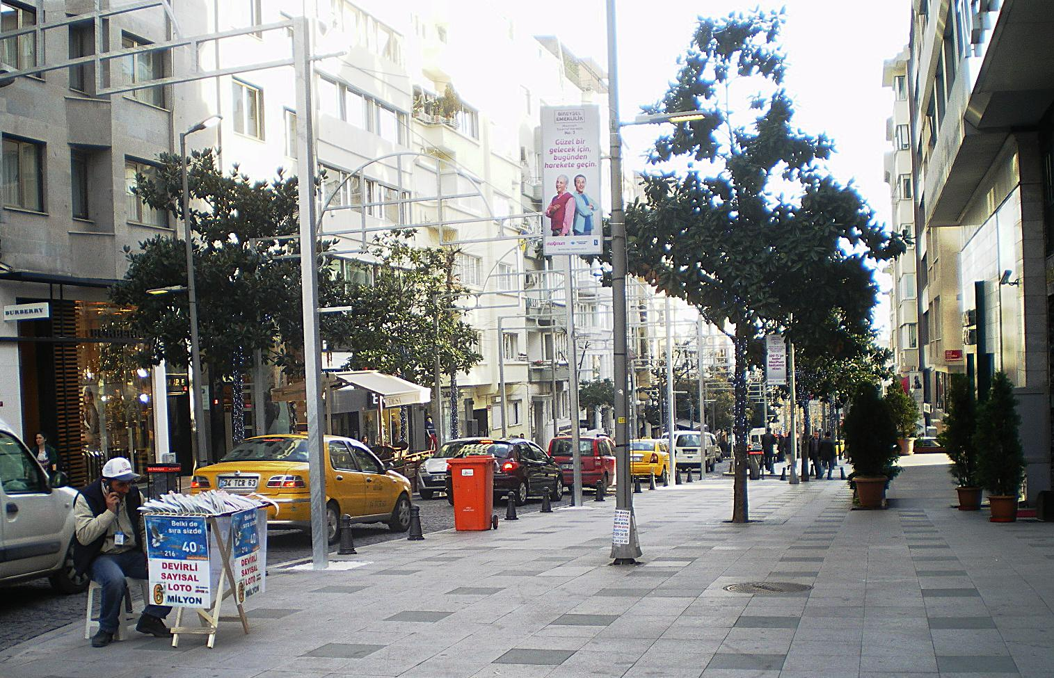 Abdi İpekçi Avenue in Şişli, Istanbul, Turkey